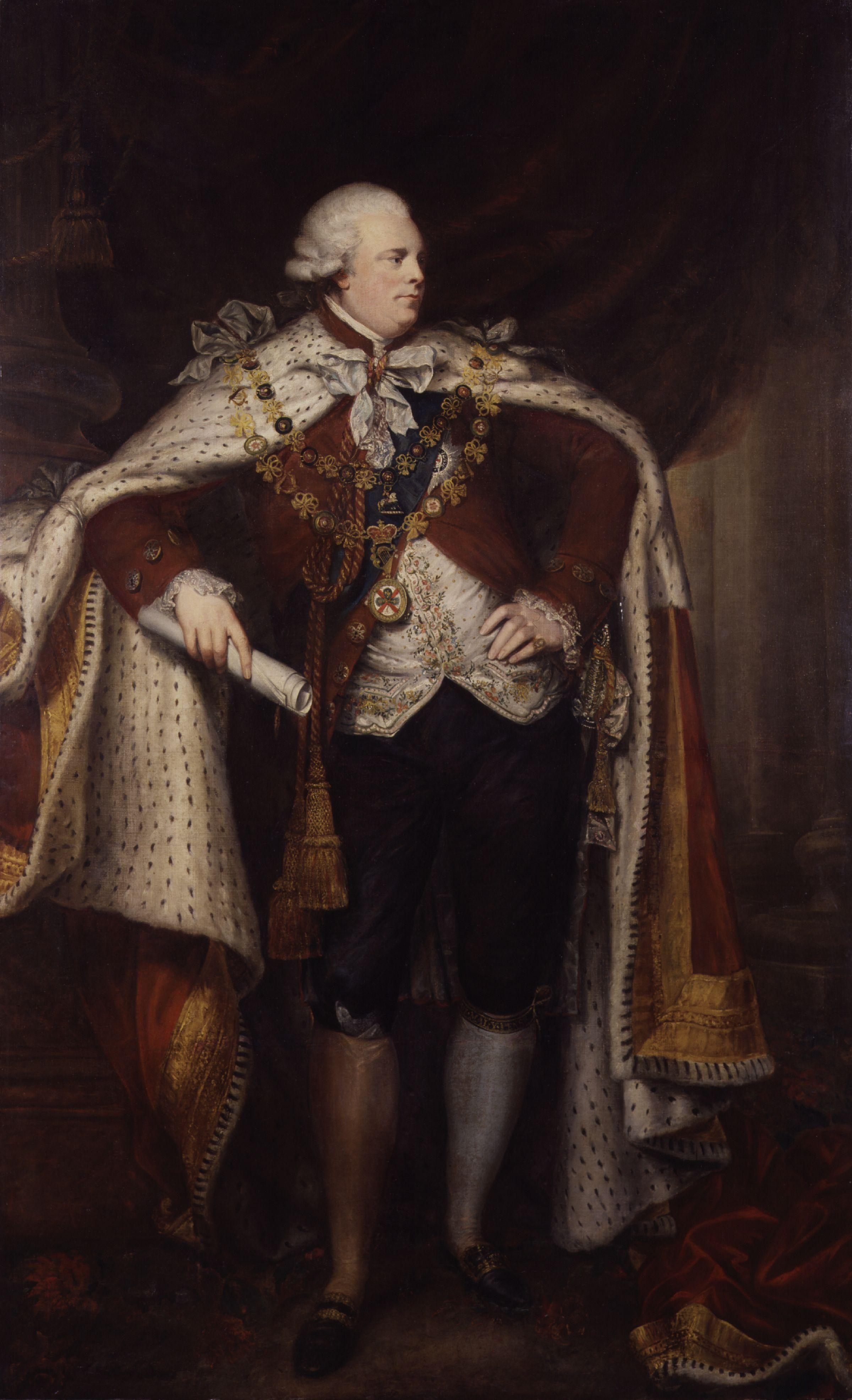 George Nugent Temple Grenville, 1st Marquess of Buckingham, by unknown artist. All images in this batch have an unknown author, but there is strong evidence it was first published before 1923 (based mainly on the NPG's estimated date of the work).